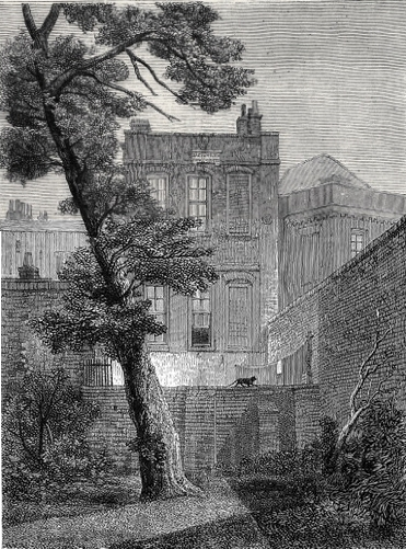 The back of no 19 York Street (1848). John Milton lived in the "pretty garden-house" in Petty France, Westminster. It afterwards became No. 19 York Street, for at time it belonged to Jeremy Bentham, and was occupied at different times by James Mill and John Stuart Mill, Jeremy Bentham and William Hazlitt| before being demolished in 1877